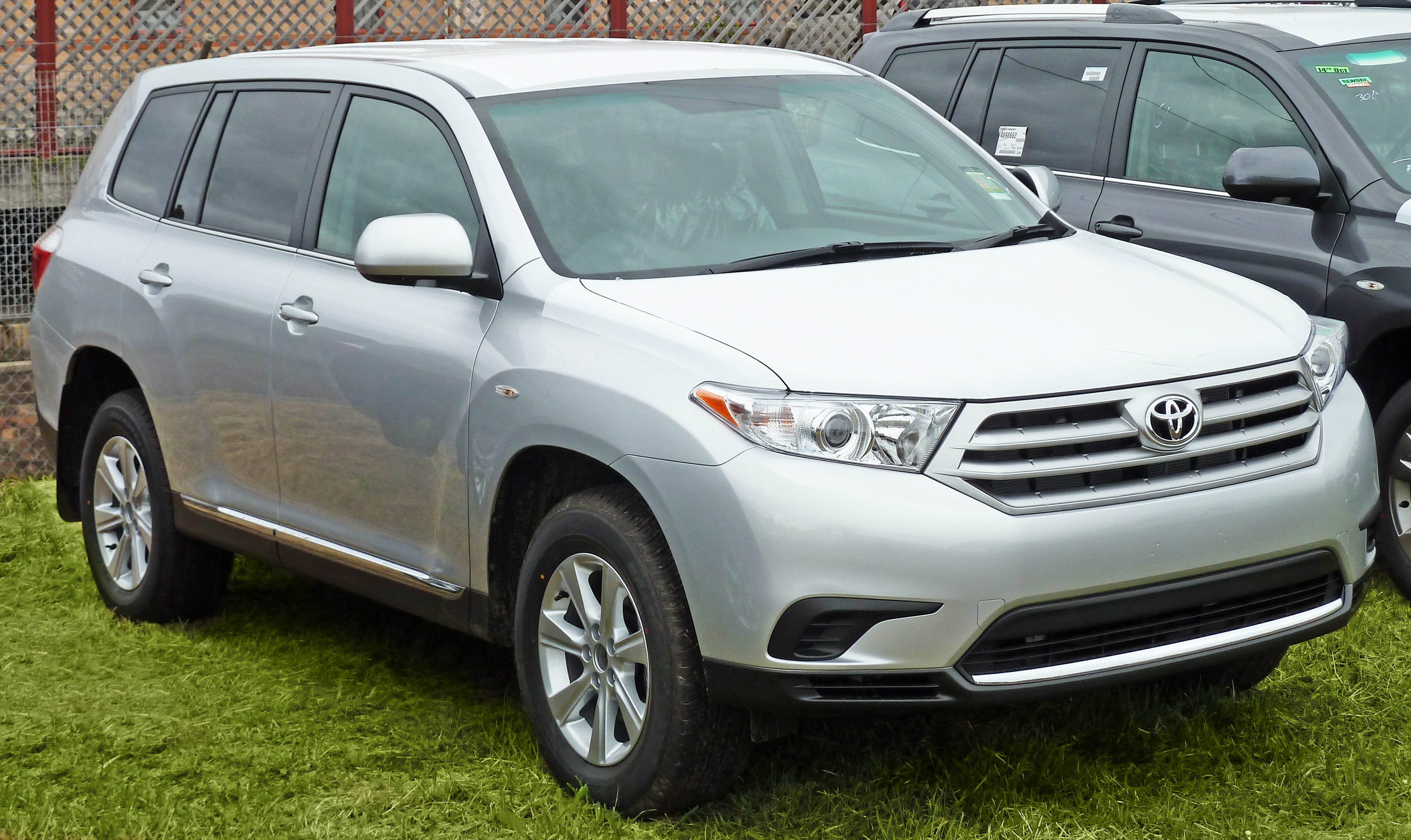 2010 Toyota Kluger (GSU40R MY11) KX-R wagon. Photographed in Chullora, New South Wales, Australia.